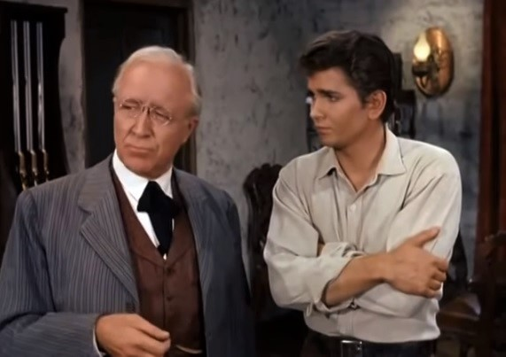 Grandon Rhodes (left) & Michael Landon in the TV-series Bonanza, episode Dark Star - cropped screenshot